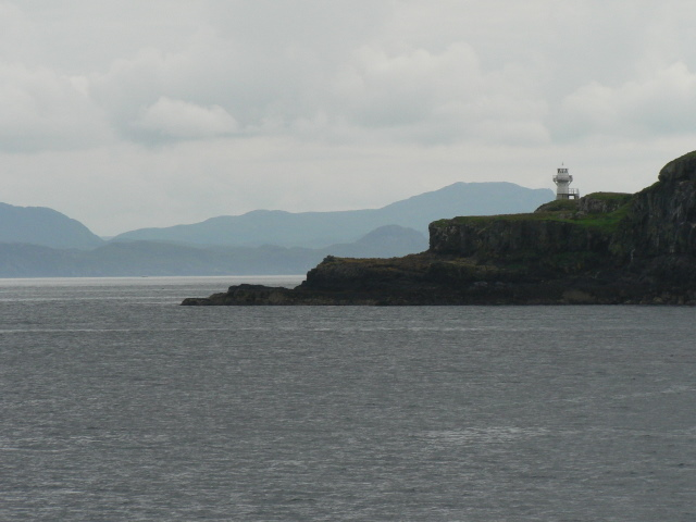 Eilean Chathastail: lighthouse The lighthouse viewed from the Mallaig-Eigg ferry.